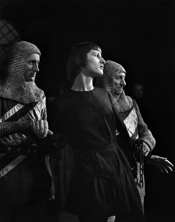 Title / Titre : “Joan of Arc,” Ottawa Little Theatre / Jeanne d’Arc à l’Ottawa Little Theatre Creator(s) / Créateur(s) : Yousuf Karsh Date(s) : 1937 Reference No. / Numéro de référence : MIKAN 3949026 Location / Lieu : Ottawa, Ontario, Canada Credit / Mention de source : Yousuf Karsh. Library and Archives Canada, e008441737 / Yousuf Karsh. Bibliothèque et Archives e008441737